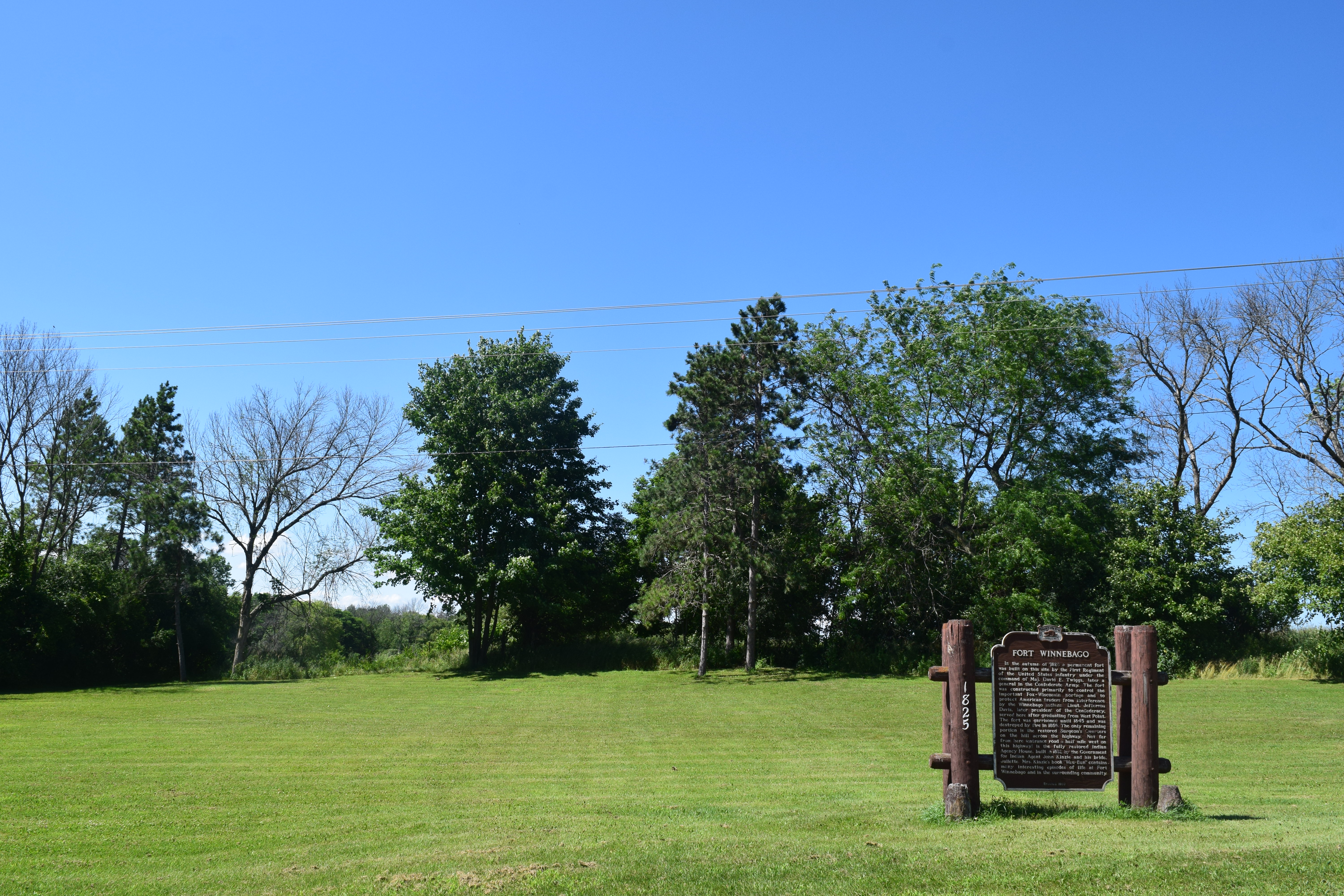 The site of Fort Winnebago near Portage, Wisconsin. The site is marked by a historical marker.